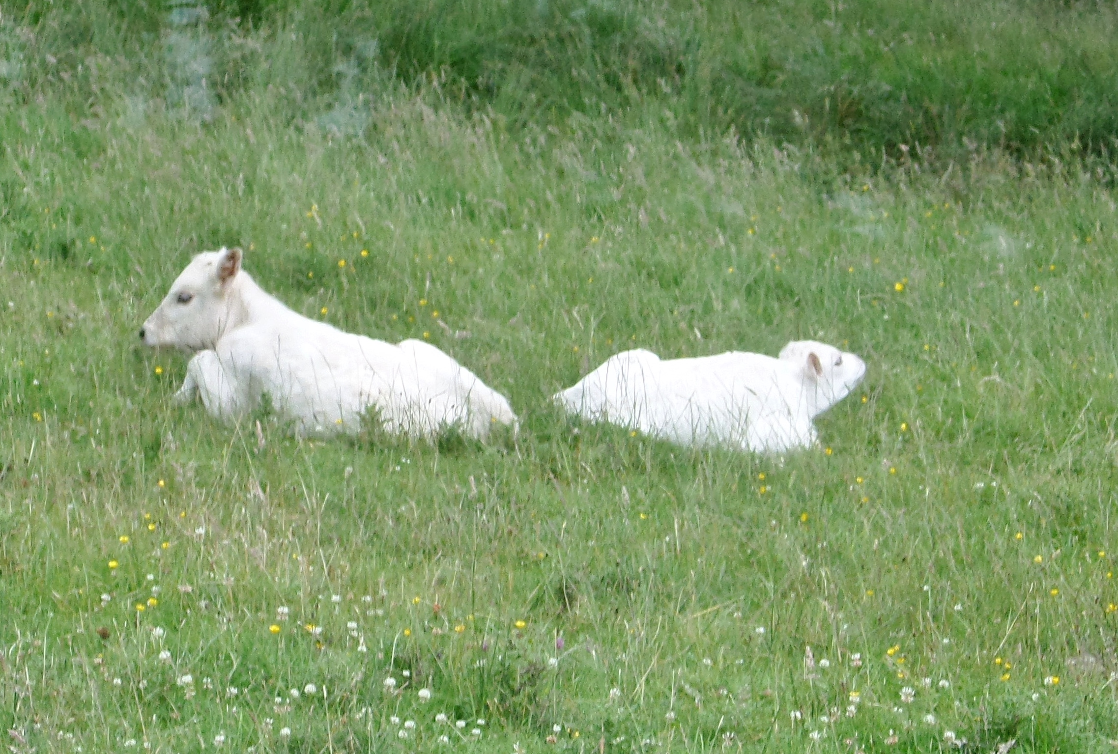 Calves of Chillingham Wild Cattle near the hemmel, Chillingham Park, Northumbria, England. The hemmel is the Warden's base.